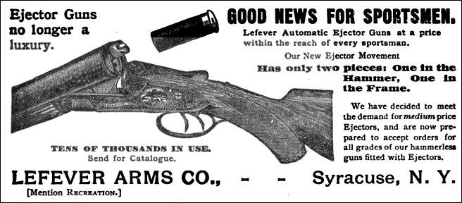 Lefever Arms Company - Ejector - 1896